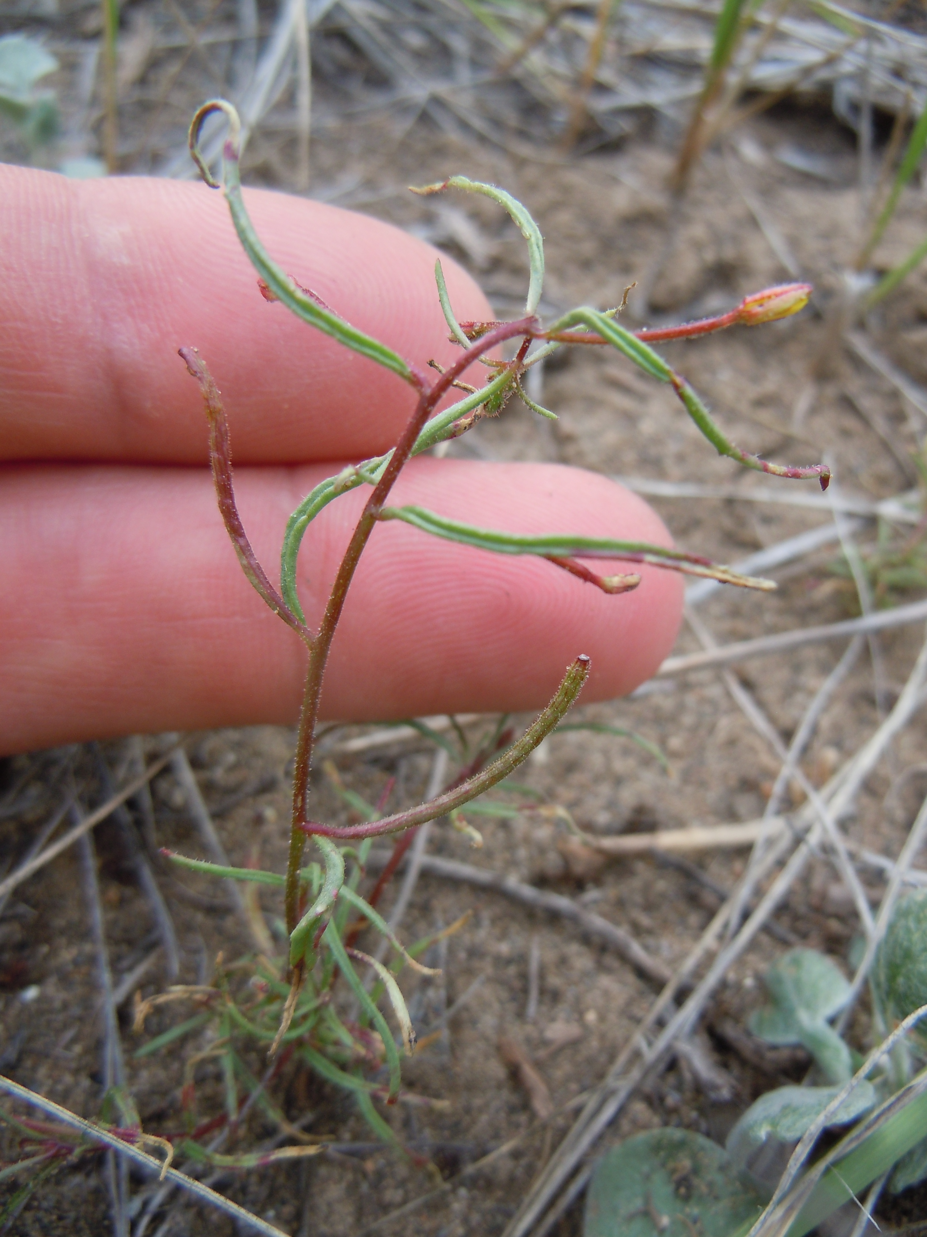 This yellow flowered annual might be mistaken for a species of Gayophytum except for the yellow the petals and the capitate stigma.